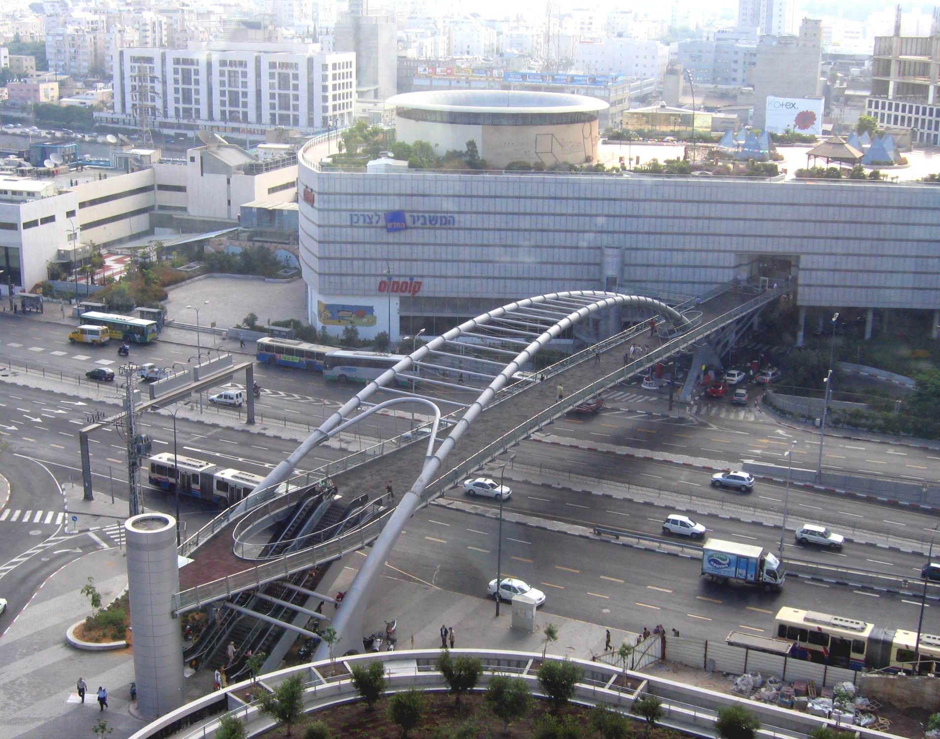 The bridge between the Azrieli towers & mall and the Kirya military base, over the Menahem Begin road, Tel Aviv, Israel. The roof of the Azrieli mall is seen in the background. Taken from the new Kirya tower, inside the Kirya military base. Taken by Beny Shlevich on Aug. 30th, 2005. Originally uploaded to Flickr.